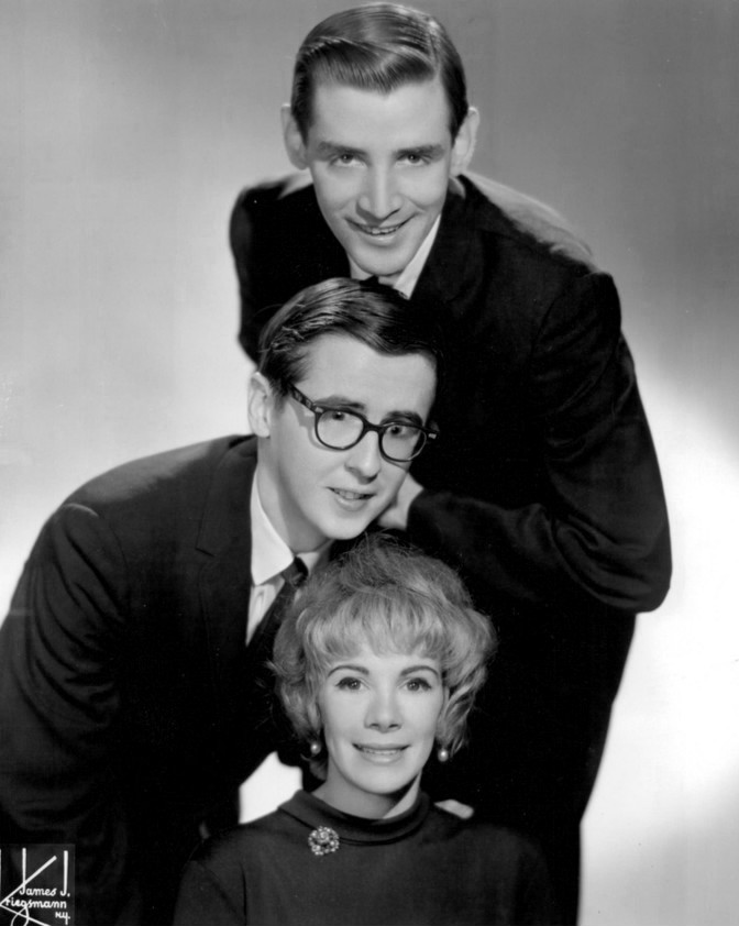 Publicity photo of (from top) Jim Connell, Jake Holmes and Joan Rivers when the three worked as a team "Jim, Jake & Joan".